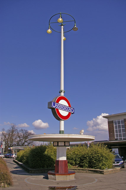 Art Deco Seat and Station Sign, Oakwood, London N14 Refurbished seat and station sign with lamps. The original sign had the actual name of the station, but was replaced a few years ago with this standard Underground sign. The edge of the Oakwood Station building can be seen on the right.